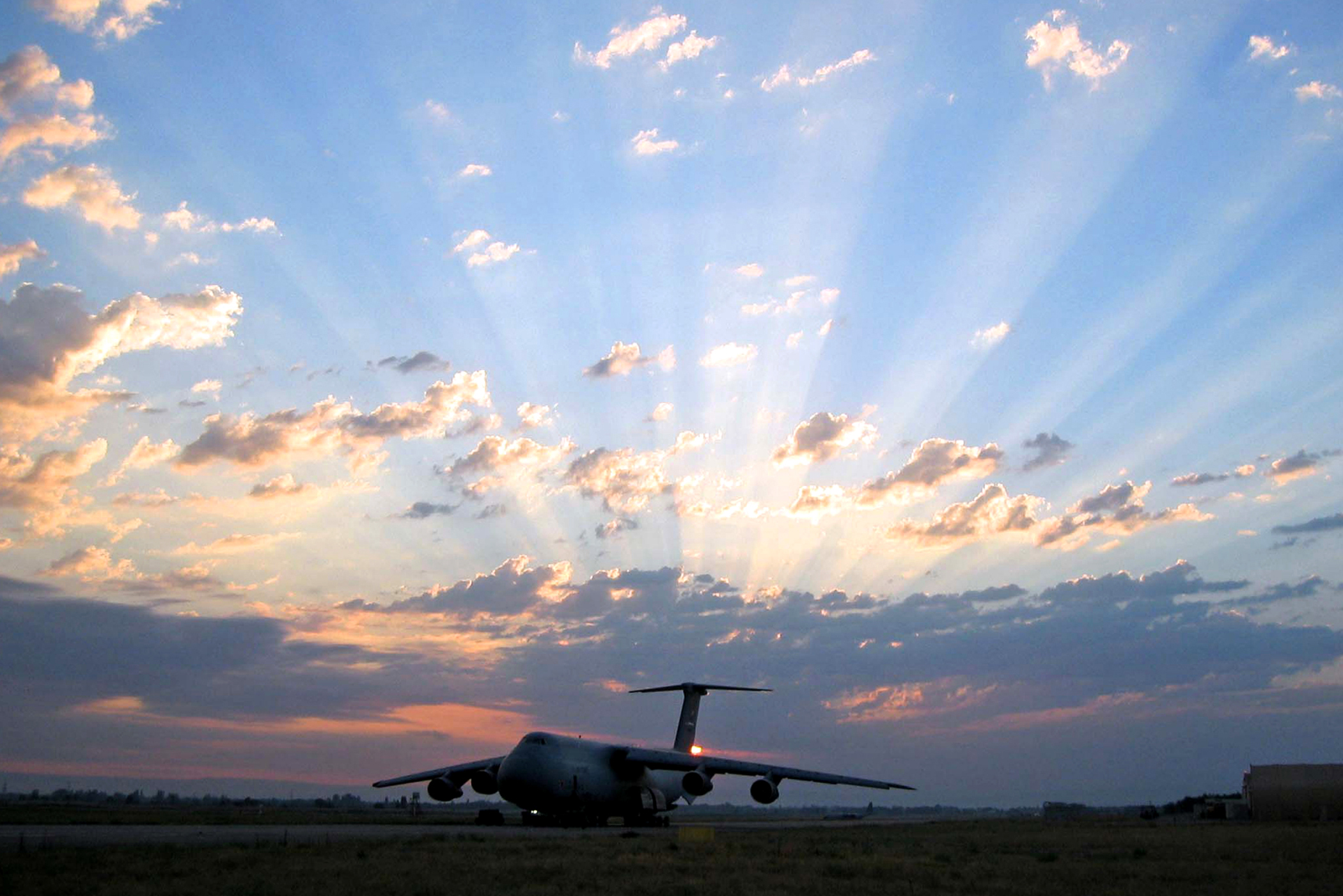 A C-5 Galaxy from the Air Force Reserve Command's 433rd Airlift Wing is ready to depart a deployed location on another mission supporting Operation Iraqi Freedom.